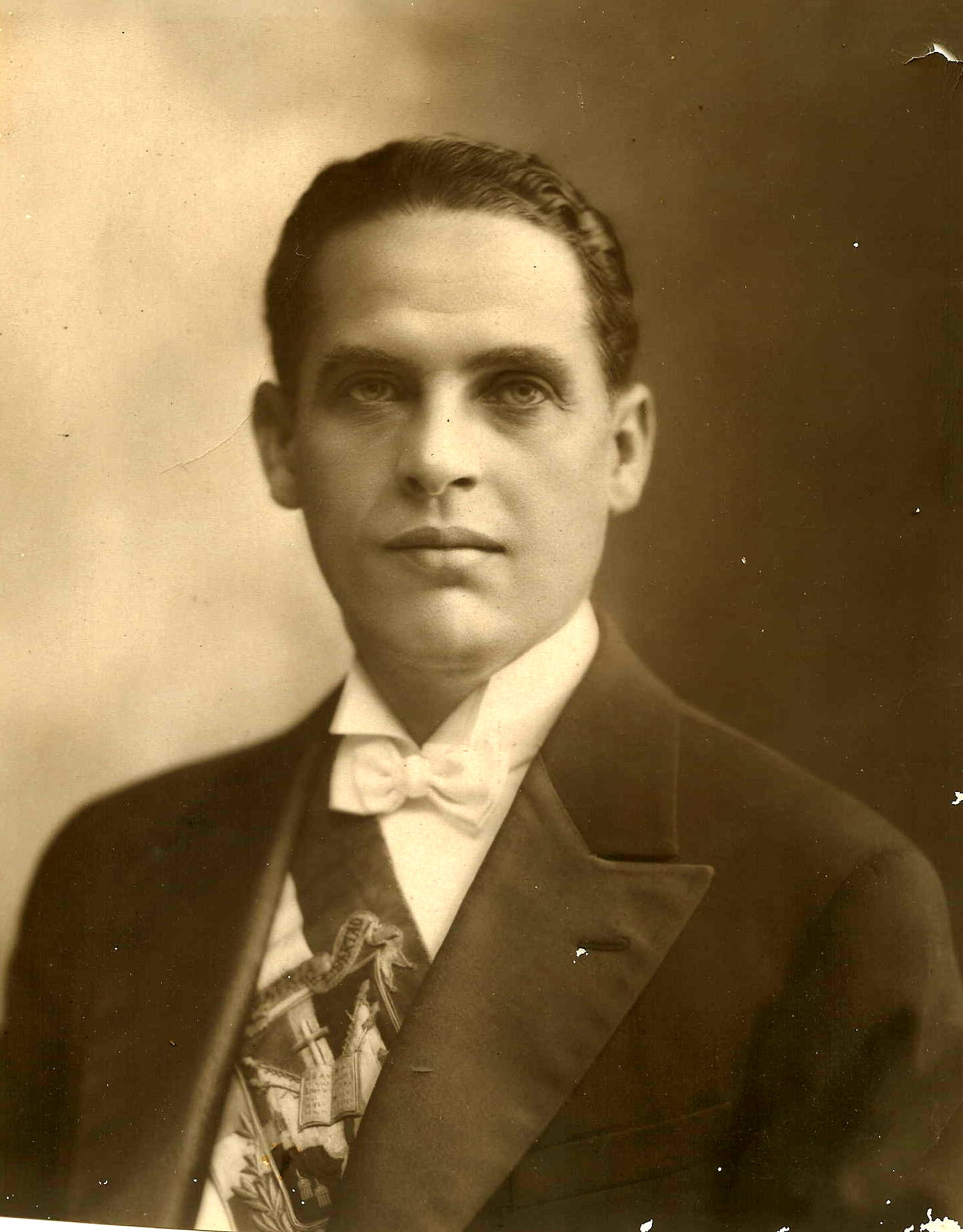 Rafael Estrella Urena